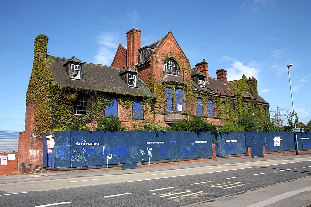 Old Offices of the Birmingham Battery Company